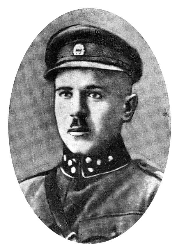 Captain Jaan Tõnisson, the commander of 2nd Battery, 1st Artillery Regiment.